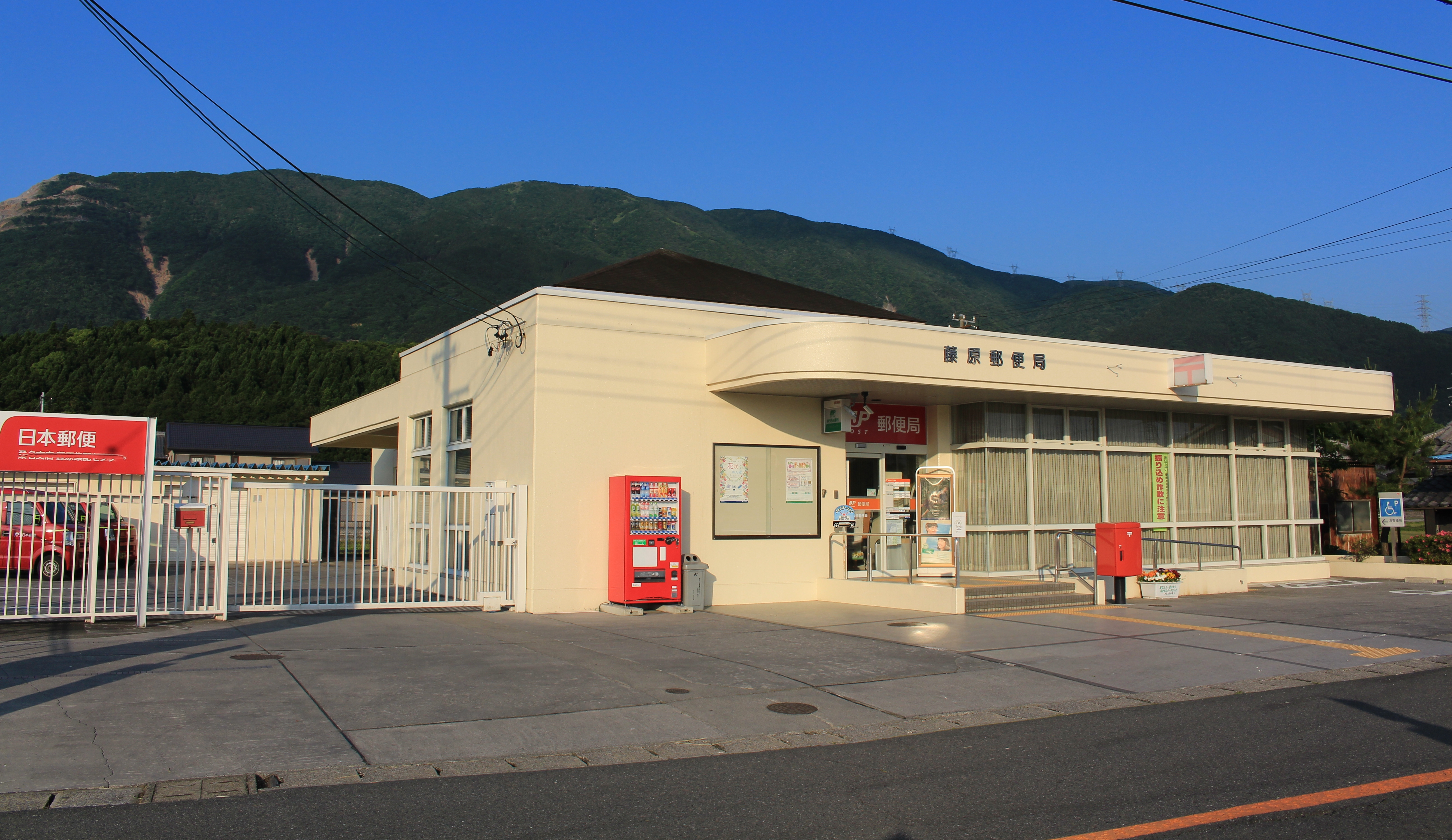 Mount Fujiwara and Fujiwara Post office, in Inabe, Mie prefecture, Japan.